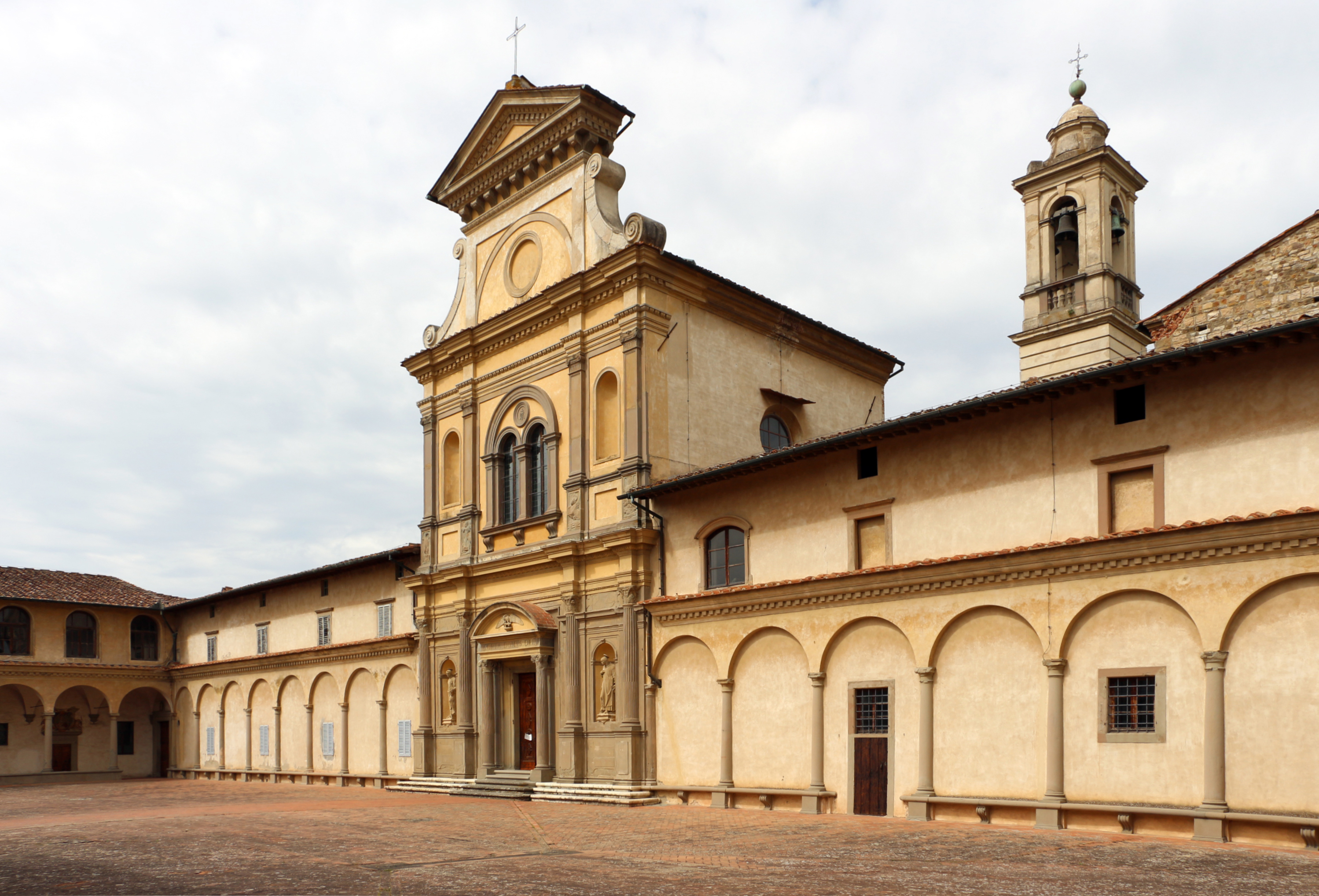 Certosa (Florence) - San Lorenzo (exterior)